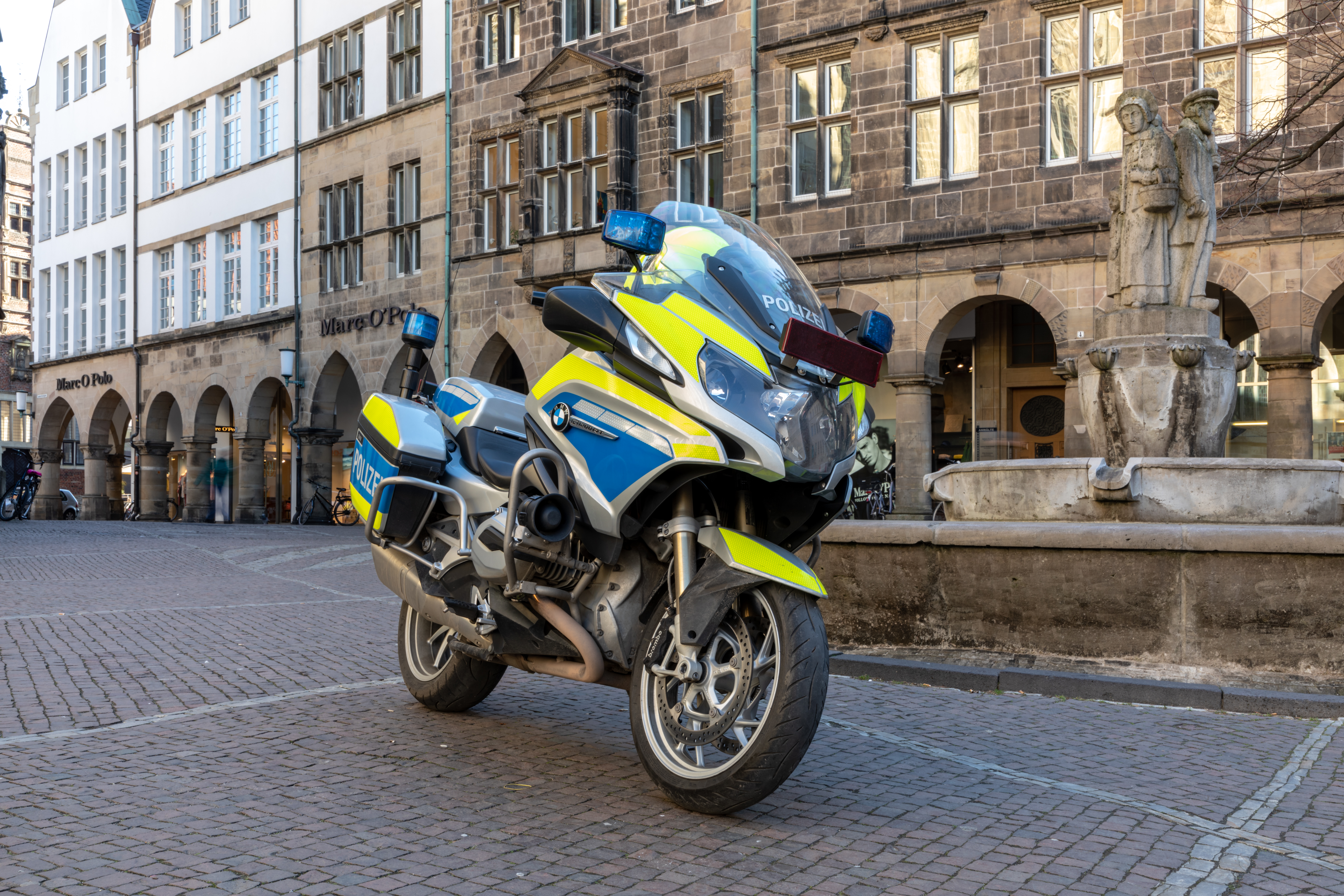 Motorbike at the Lambertikirchplatz in Münster, North Rhine-Westphalia, Germany Sculpture TitleLambertibrunnenArtistHeinrich Bäumer jun.Date1956